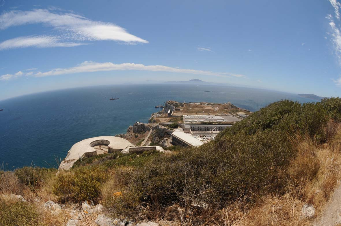 Levant Battery and Windmill Hill, Gibraltar, with North Africa in the background